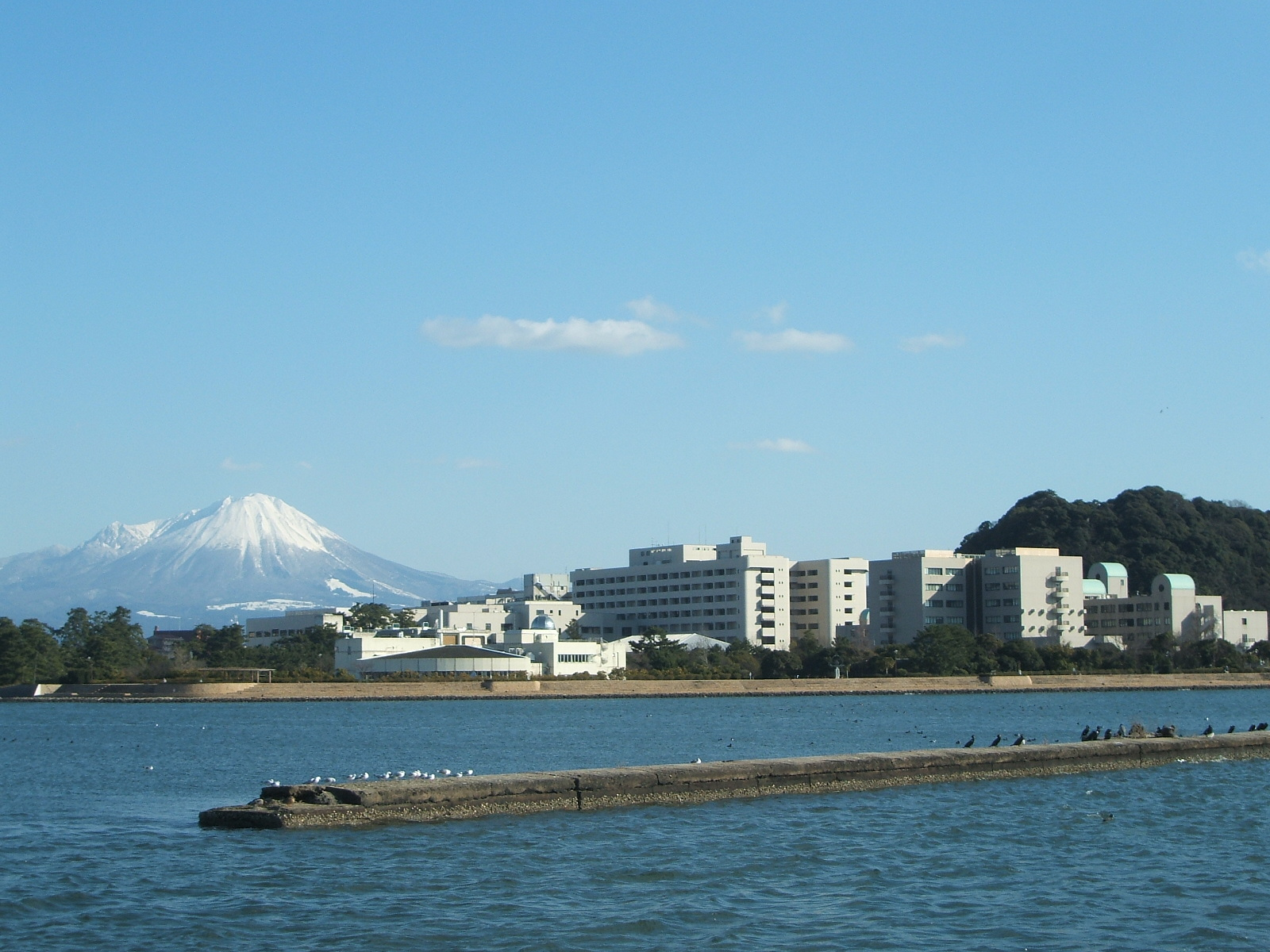 Buildings of Tottori University Faculty of medicine and Mt.Daisen. Yonago city, Tottori prefecture, Japan